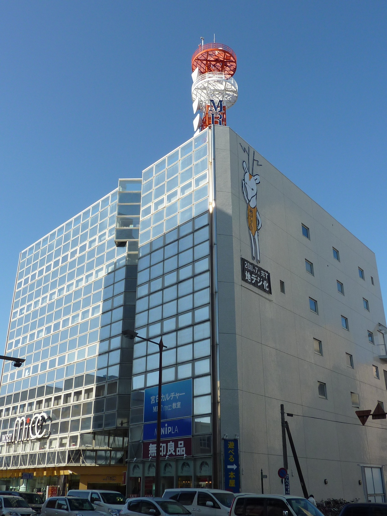 Headquarters of Miyazaki Broadcasting (MRT, JONF-(D)TV, JONF) It is located in Central Miyazaki City, Japan.